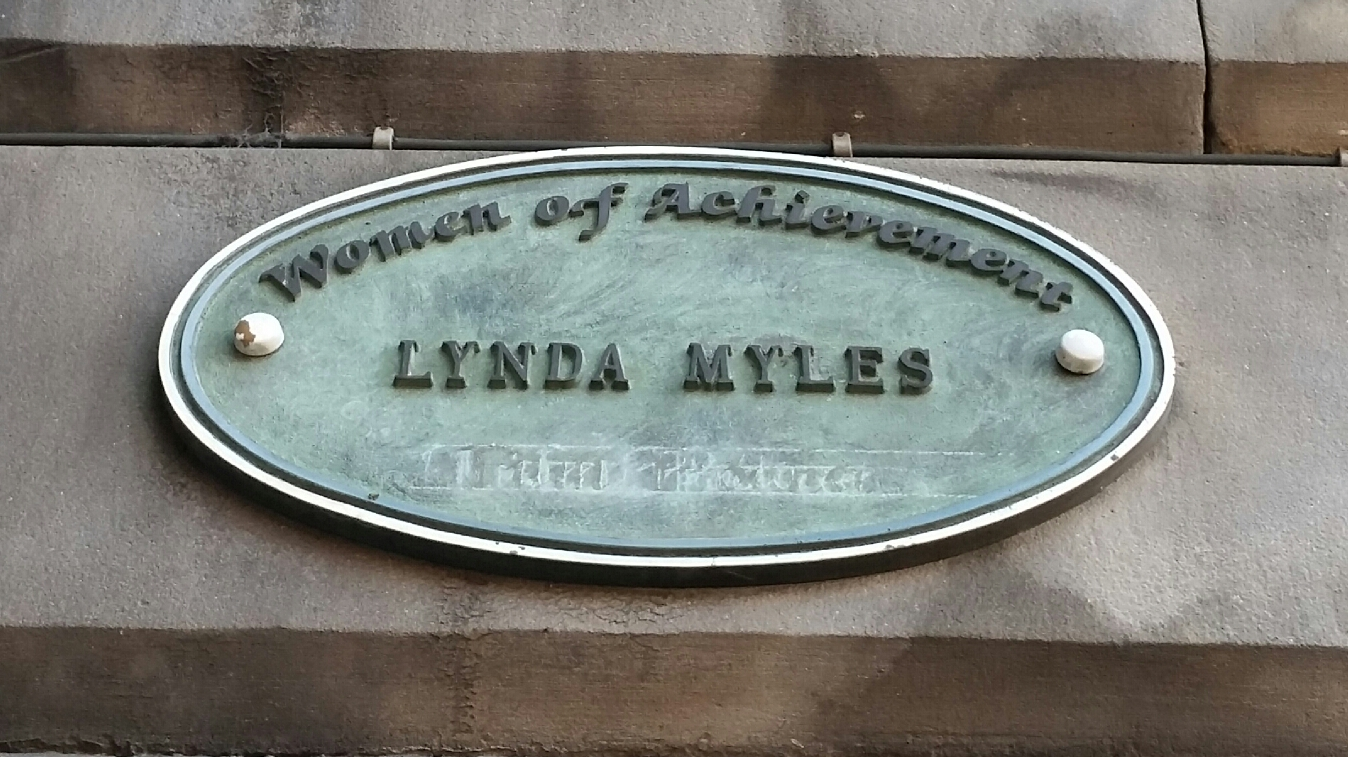 Plaque located near Filmhouse Cinema, 88 Lothian Road, Edinburgh, United Kingdom. Part of the Women of Achievement series. Openplaques:id=11875